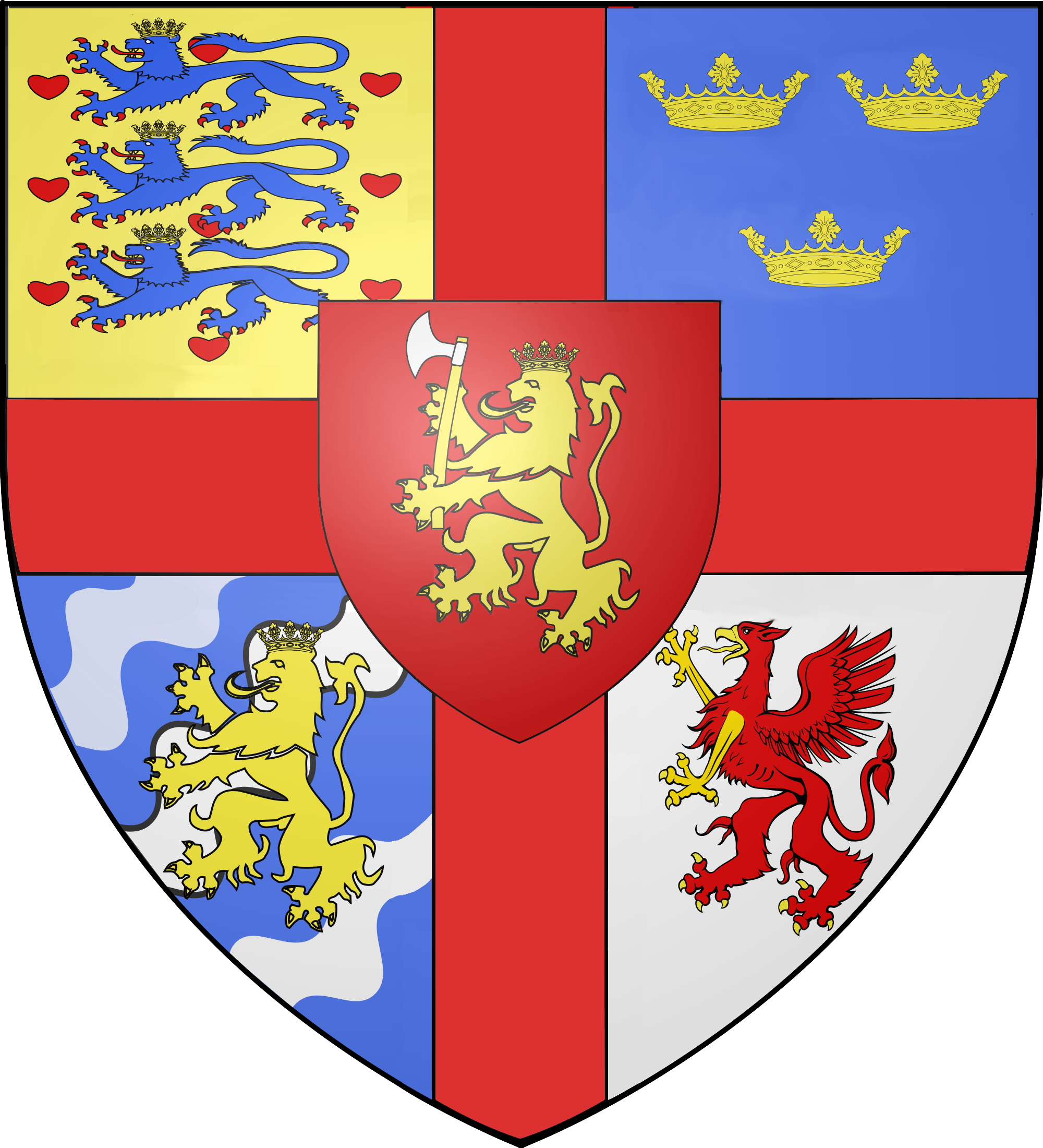 Union arms of the Kalmar Union, introduced by Eric of Pomerania. Improved version of File:Blason Eric VII de Poméranie (1382-1459) Roi de Suède, de Danemark et de Norvège.svgNorsk bokmål: Kalmarunionens unionsvåpen, innført av Erik av Pommern. Forbedret versjon av Fil:Blason Eric VII de Poméranie (1382-1459) Roi de Suède, de Danemark et de Norvège.svg